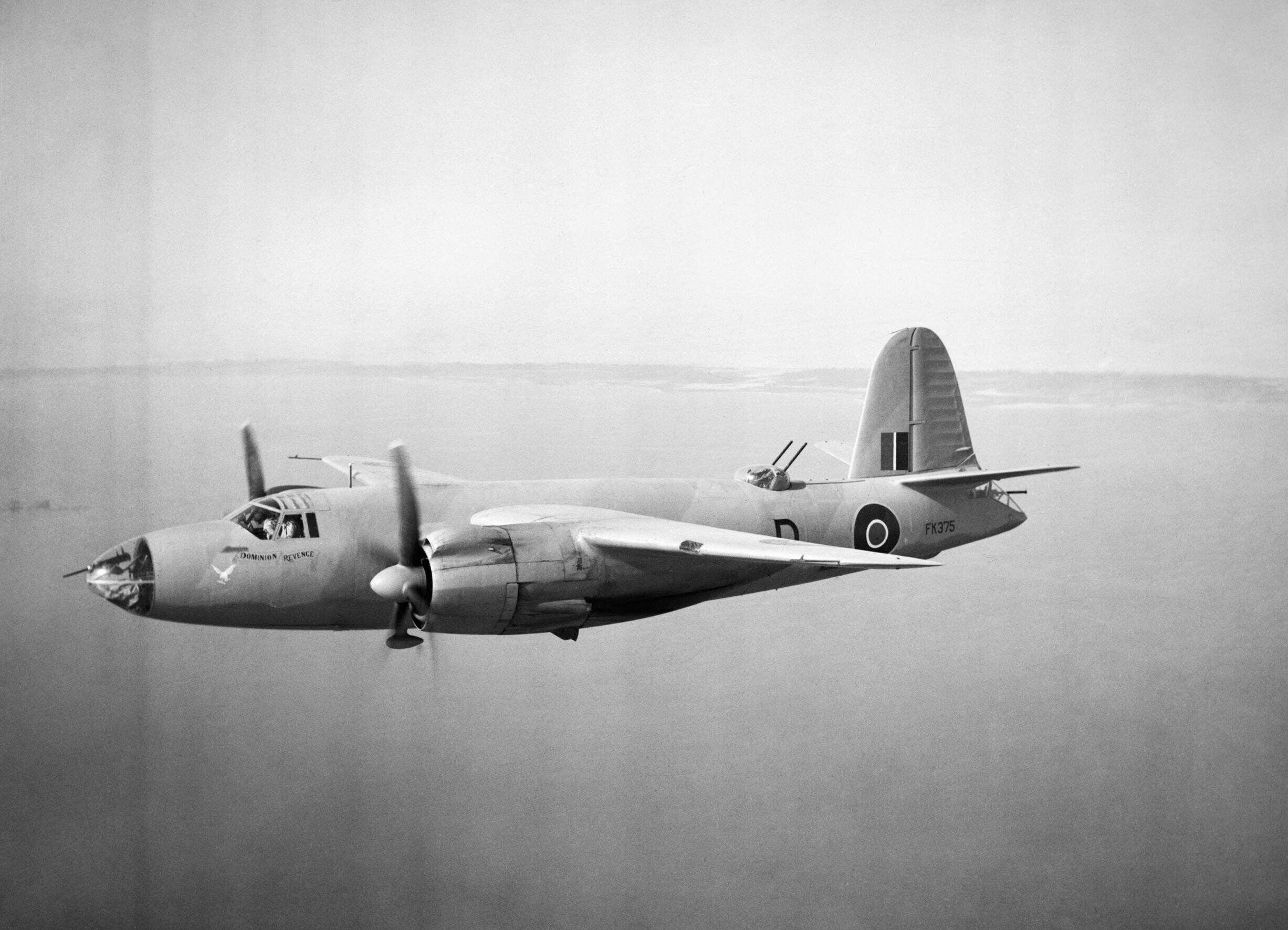 Martin Marauder Mk I of No. 14 Squadron RAF based at Fayid, Egypt, 1942. Marauder Mark I, FK375 ‘D’ “Dominion Revenge”, of No. 14 Squadron RAF based at Fayid, Egypt, in flight. This aircraft was lost during a torpedo attack off Aghios Giorgios Island on 3 January 1943.